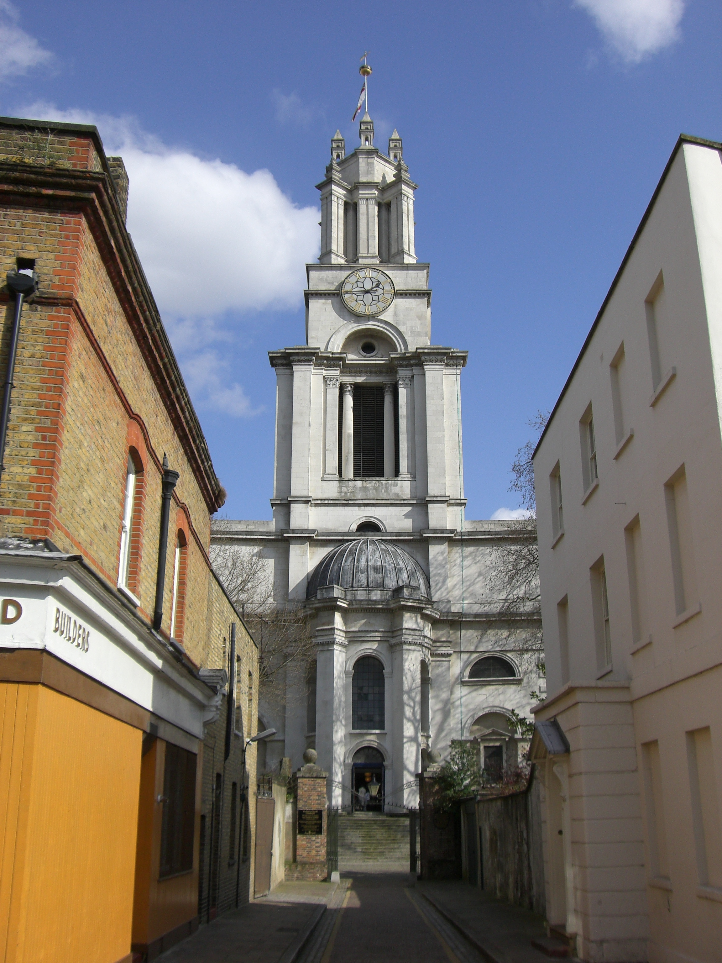 St Anne's Limehouse, a 1730 Hawksmoor church in East London. The flag, which is hard to see, is a White Ensign